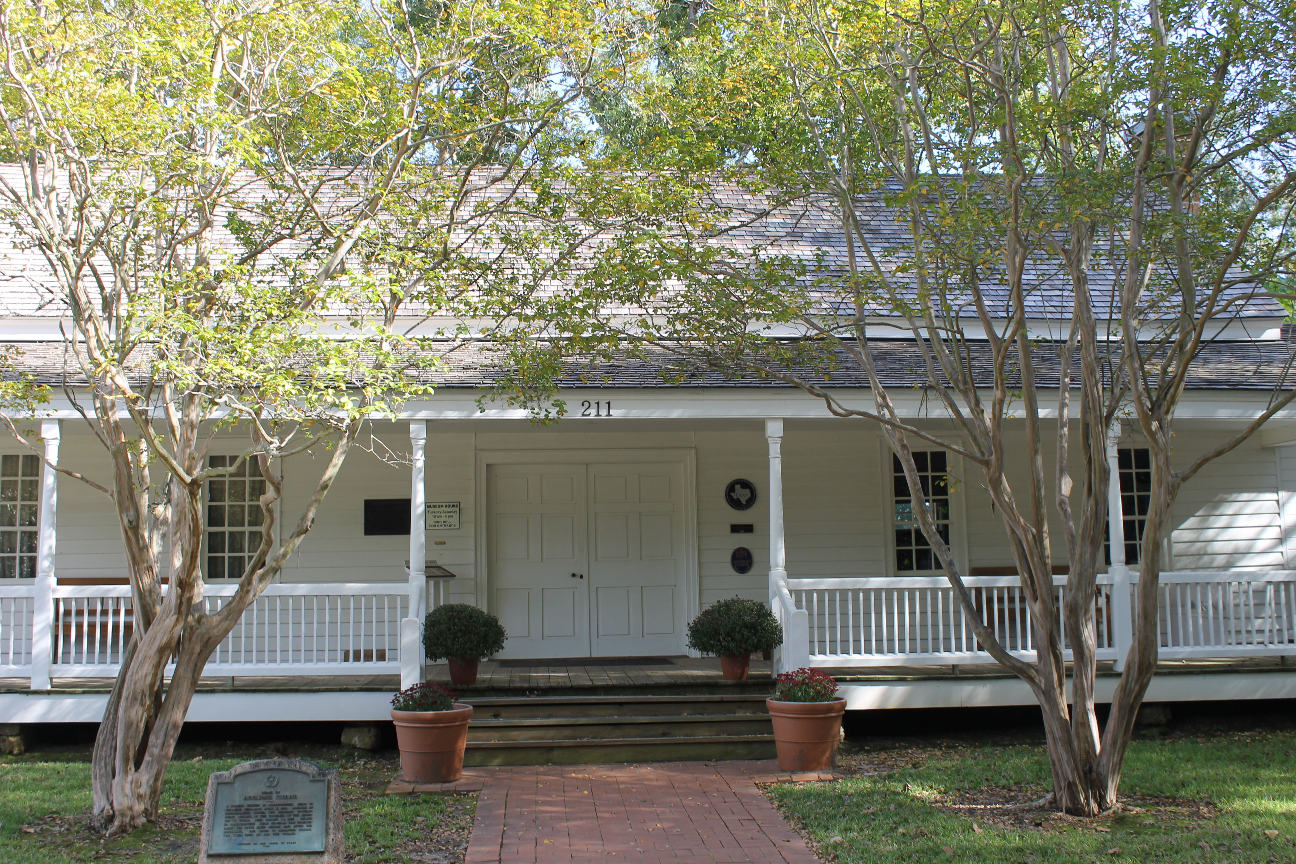 Sterne-Hoya House Museum and Library, Nacogdoches, TX